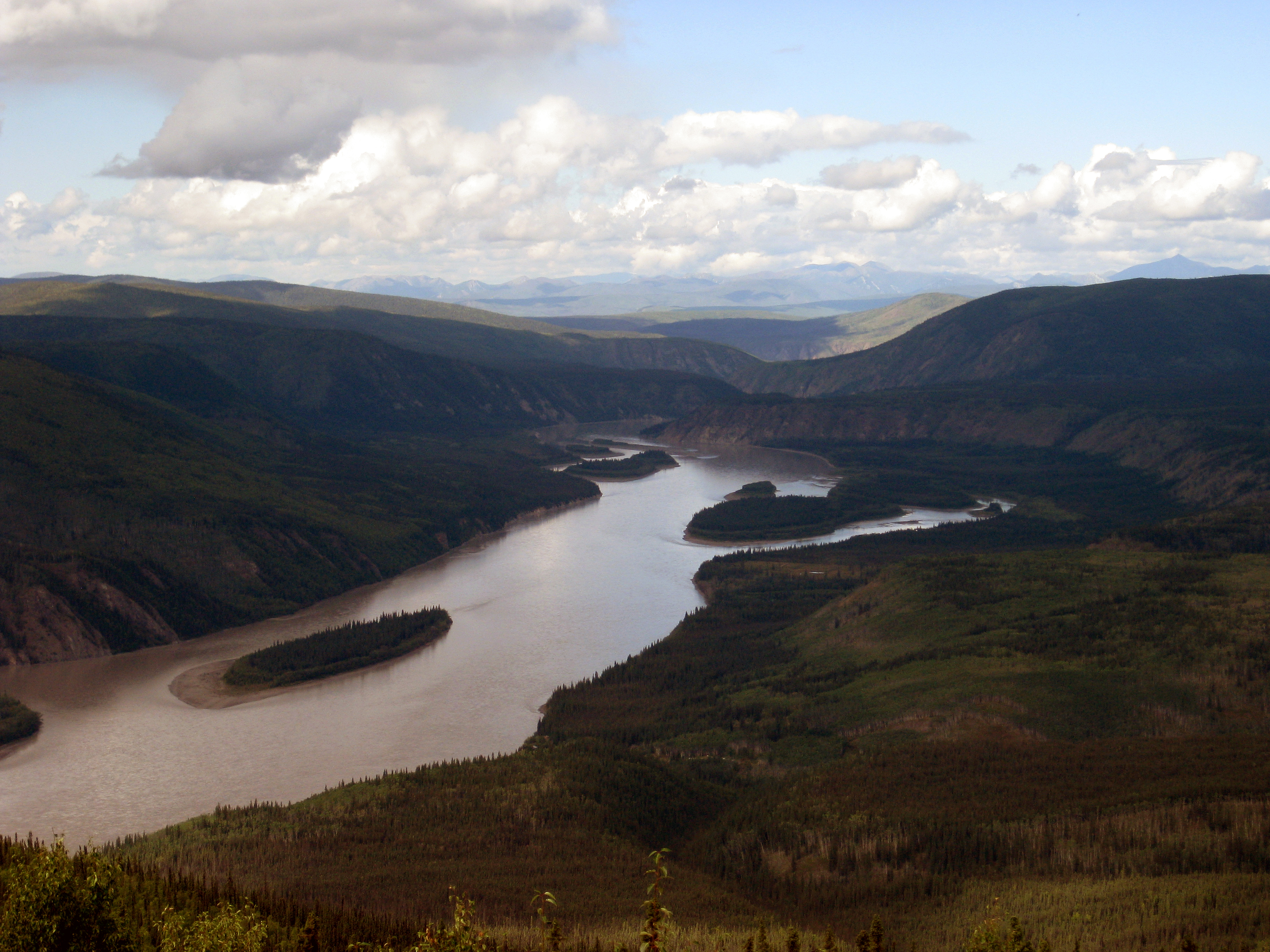 The Yukon River, as seen from the Midnight Dome in Dawson City, Yukon, Canada. Taken in August, 2012